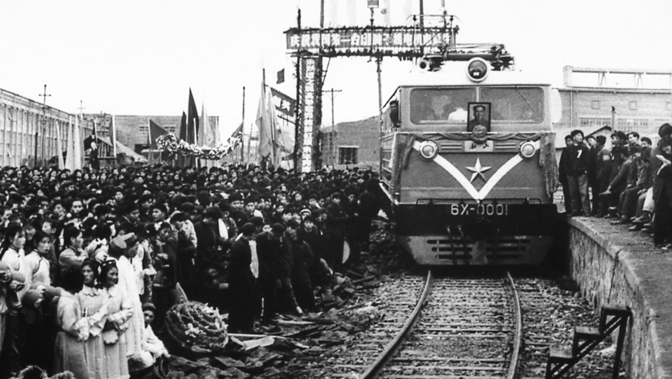 Electric locomotive 6Y1-0001 roll out from Zhuzhou Electric Locomotive Works